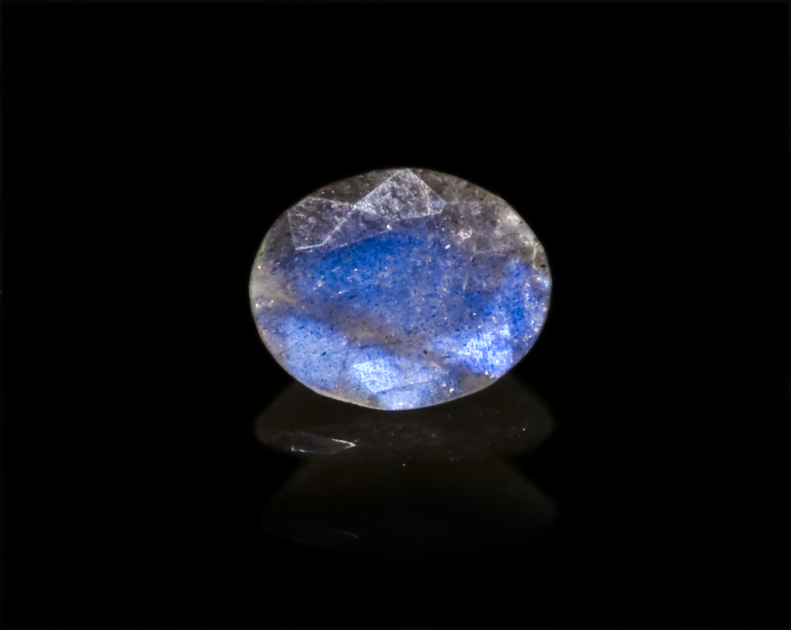 Labradorite cut - Brasil - 14x10mm